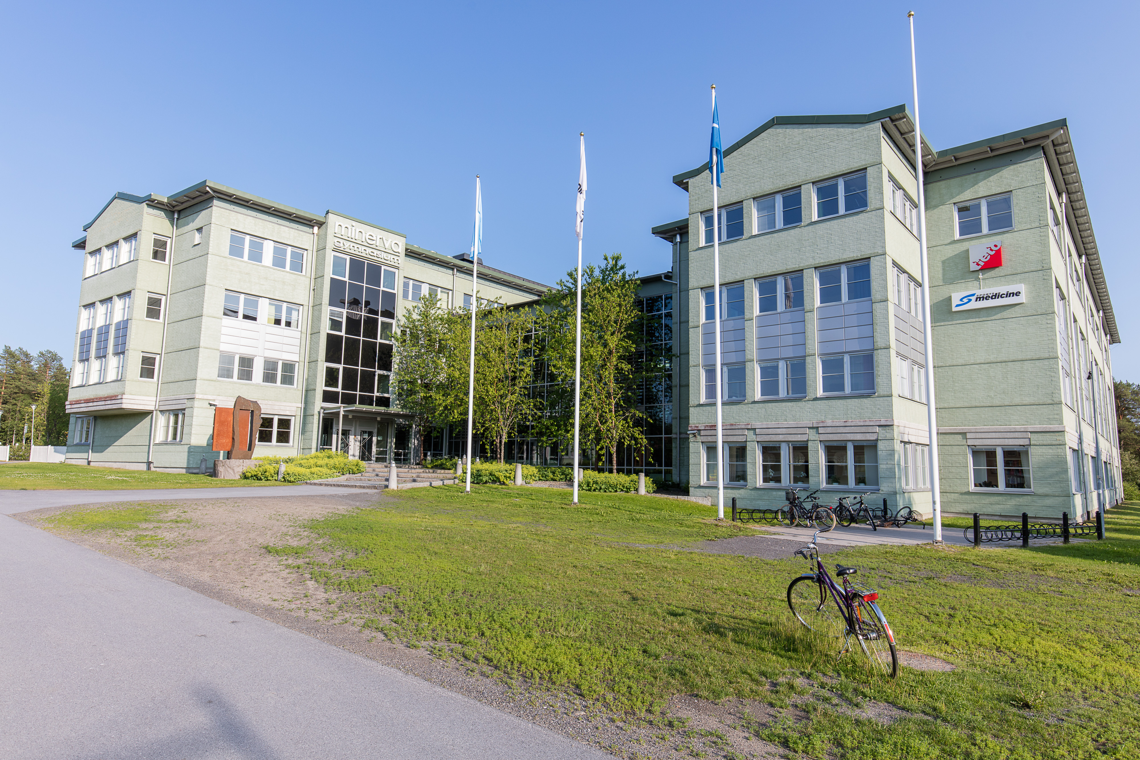 Uminova Science Park is an incubator for young companies, most with roots at Umeå University or Swedish university of Agricultural Science, both nearby.